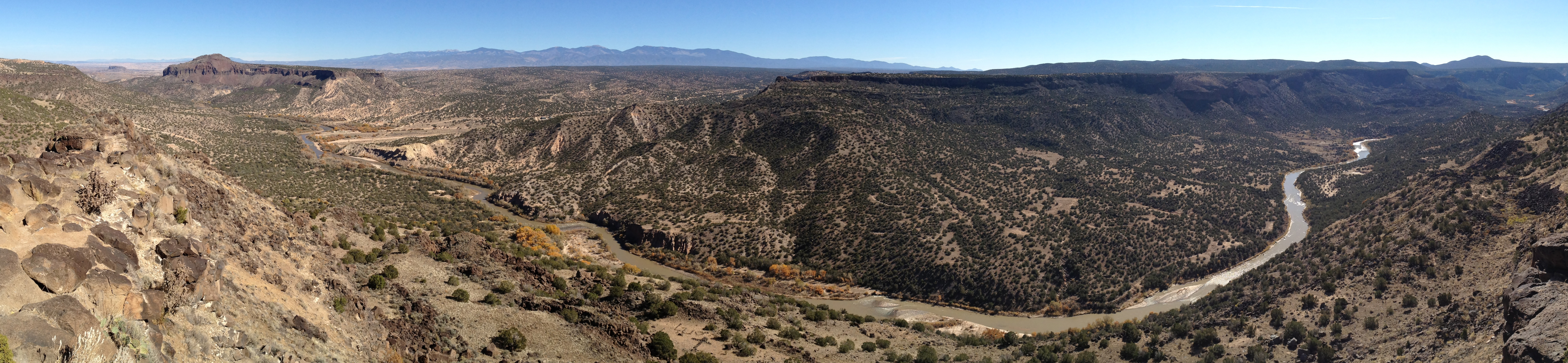 This is a panorama photo of White Rock Canyon showing Fall colors on the banks of the Rio Grande. Taken with an iPhone 4S in Panorama mode, cropped with iPhoto.